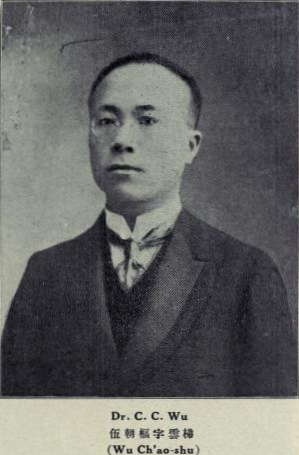 Wu Chaoshu (Wu Ch'ao-shu), Tiyun (Dr. C. C. Wu)(1887 - 1934)